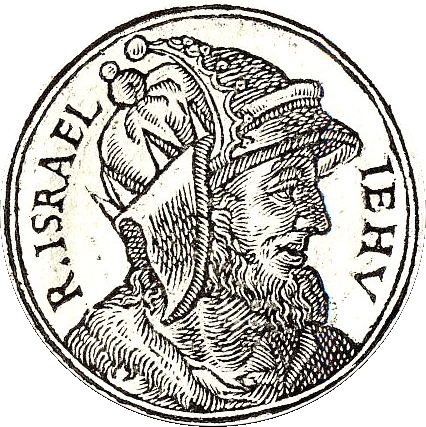 Jehu of Israel